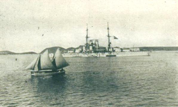 SMS Szent István